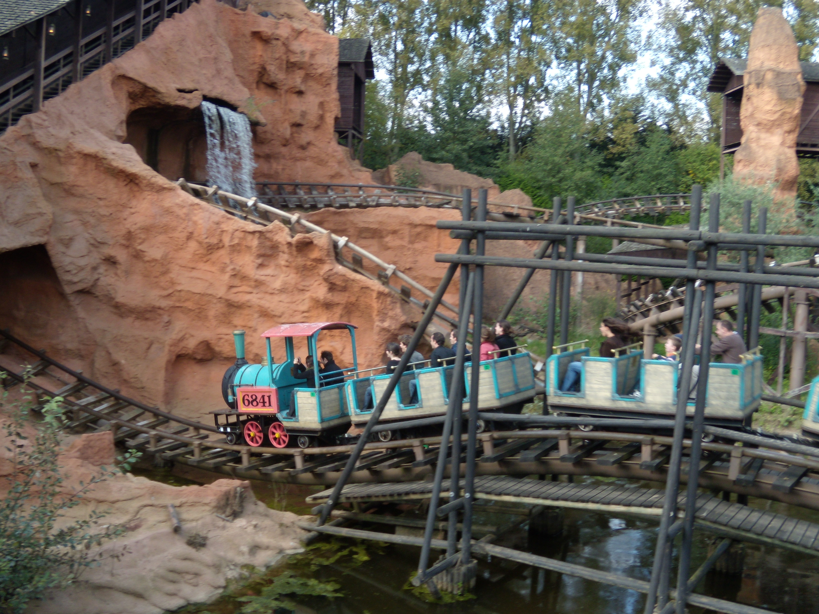 Calamity Mine, Walibi Belgium, Belgium.